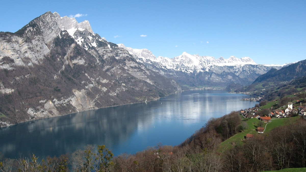 Walensee as seen from Kerenzerberg towards East. Kerenzerberg was the ancient road for the steep shore of the lake, there's no road to the settlement Quinten on the northern shore. Mountains are Churfirsten the row to the left and Sichelchamm the distinct triangle at the far end.